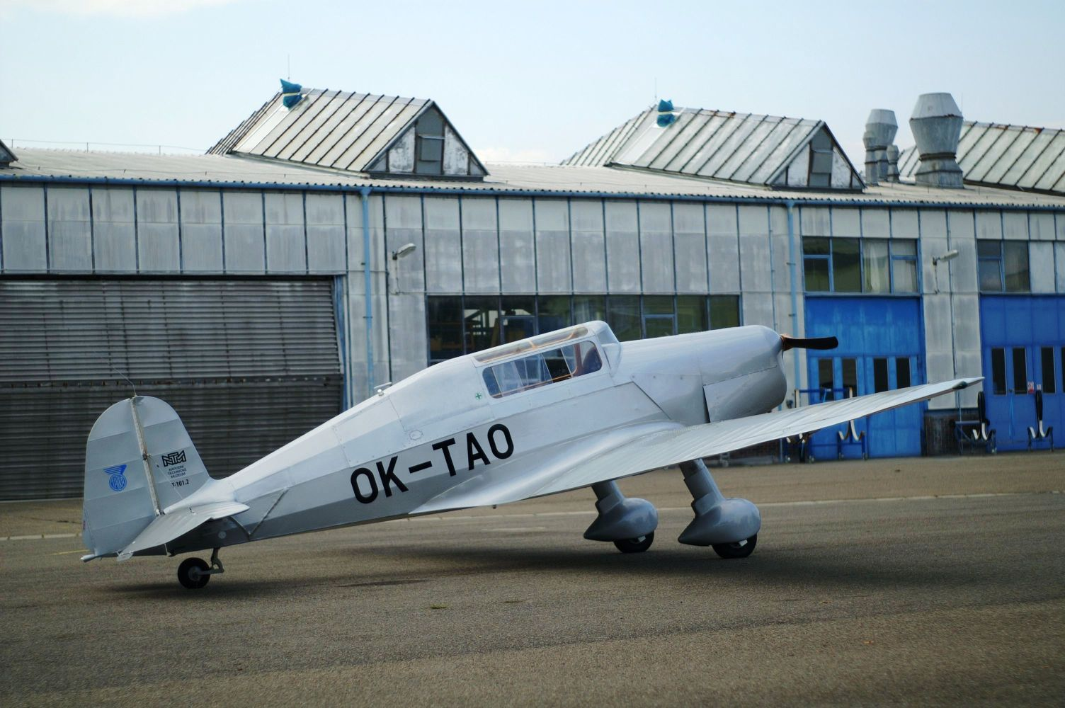 Aircraft Tatra 101.2 (OK-TAO) on Airport in Kunovice, Czech republic; Slovacky Aeroklub Kunovice; Tatra T-101(Replica)